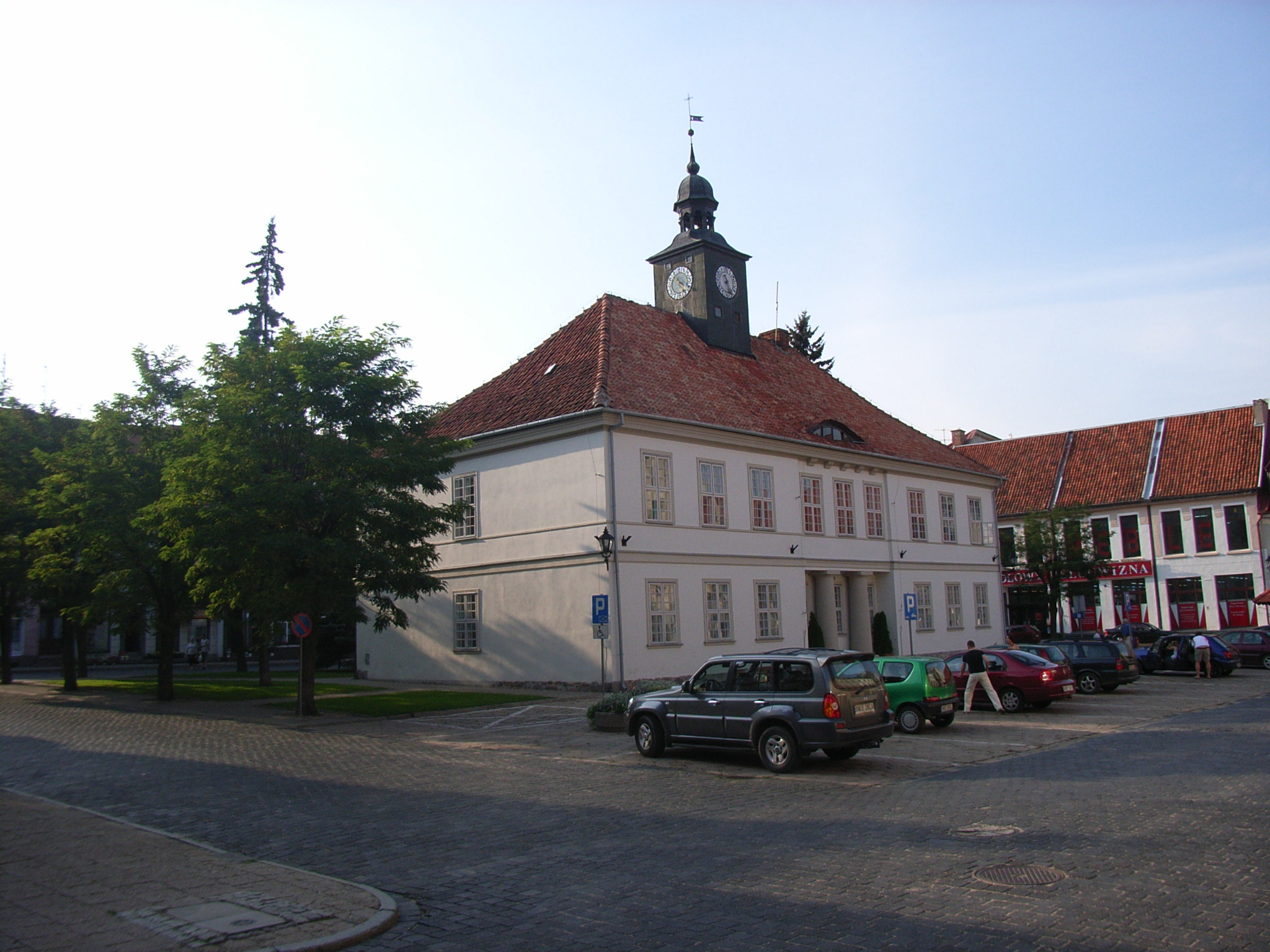 guildhall of Reszel, Poland